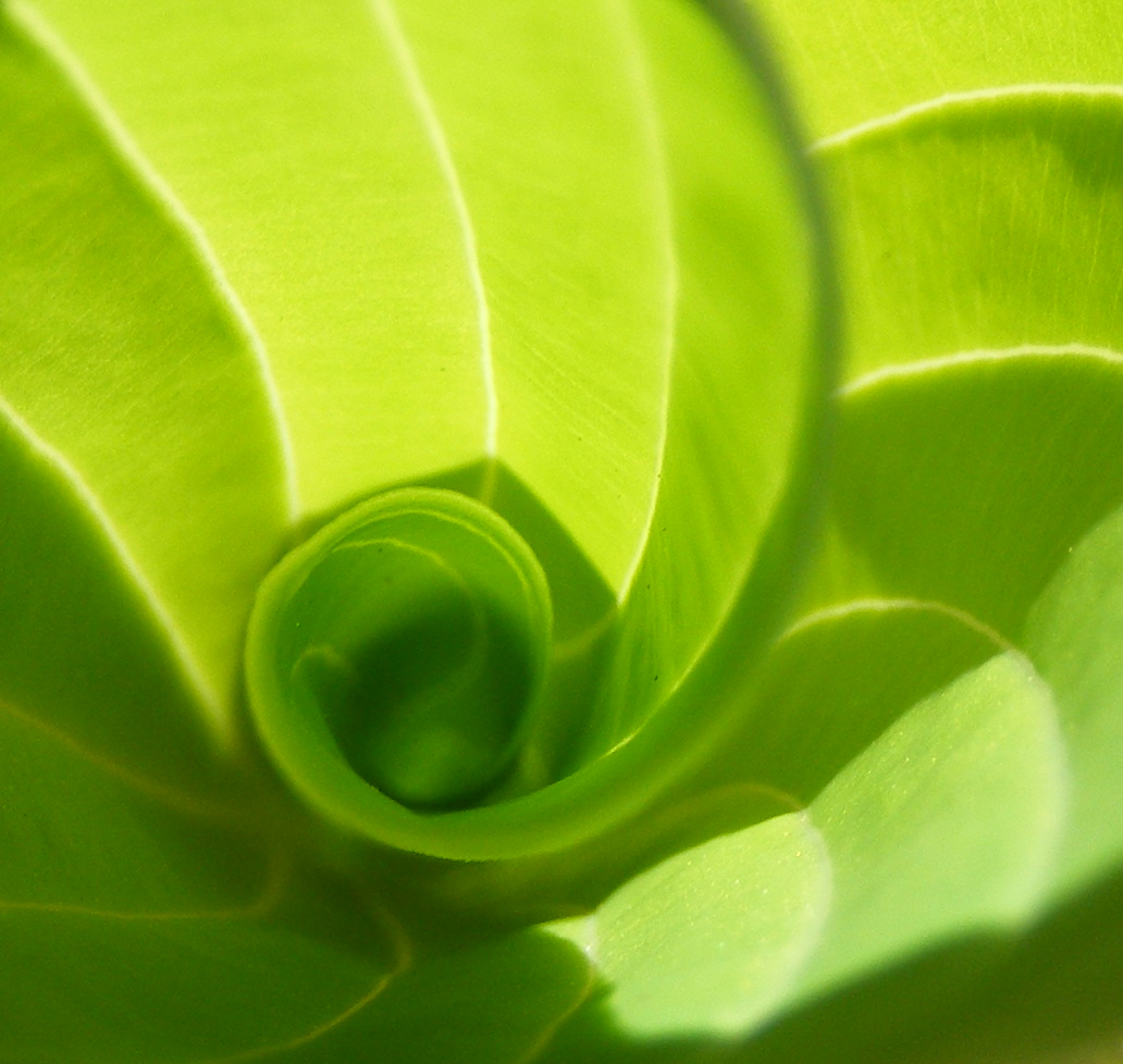 Photograph illustrates the convolute vernation of a hosta leaf.